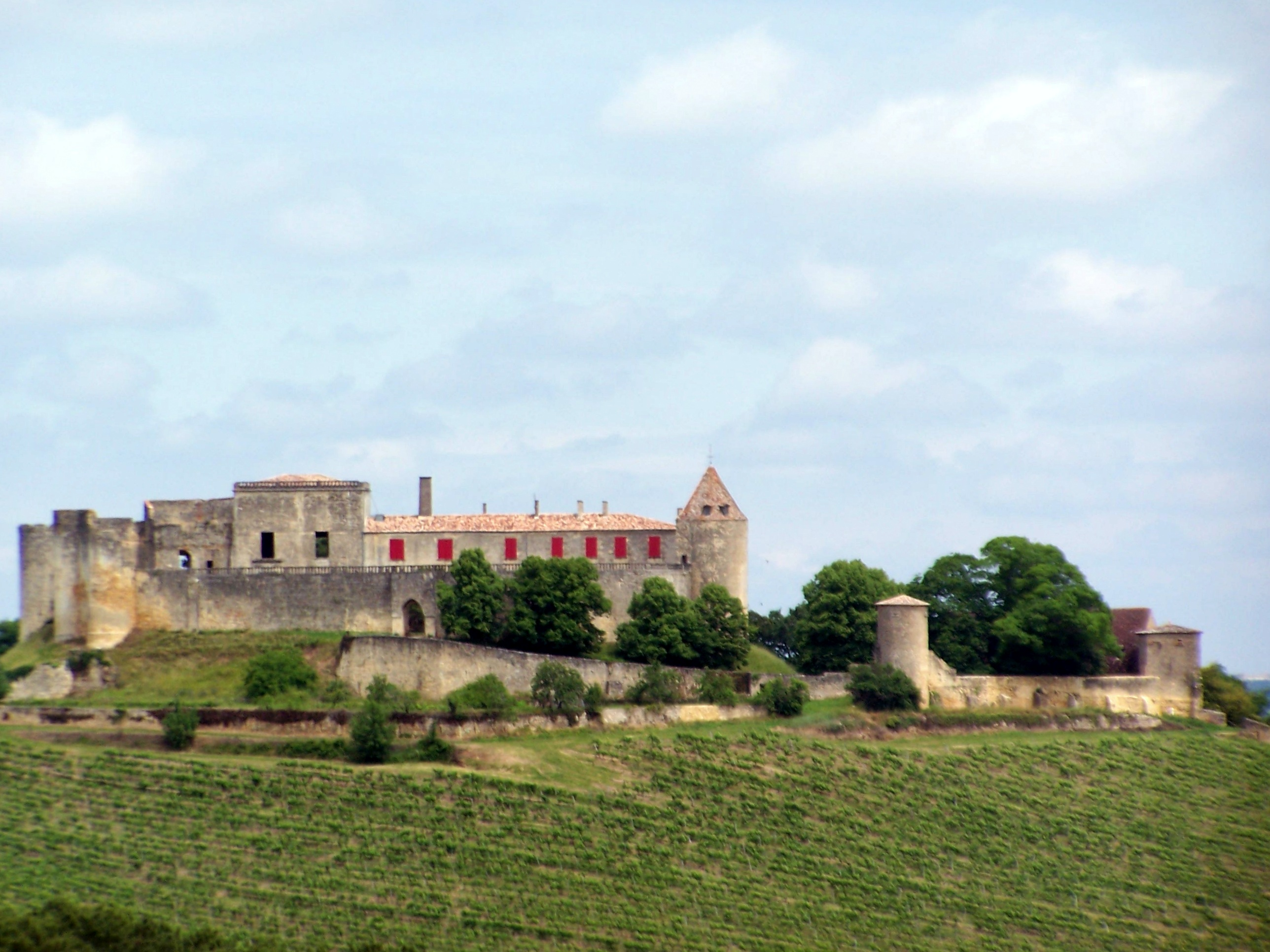 Castle of Benauge in Arbis (Gironde, France)